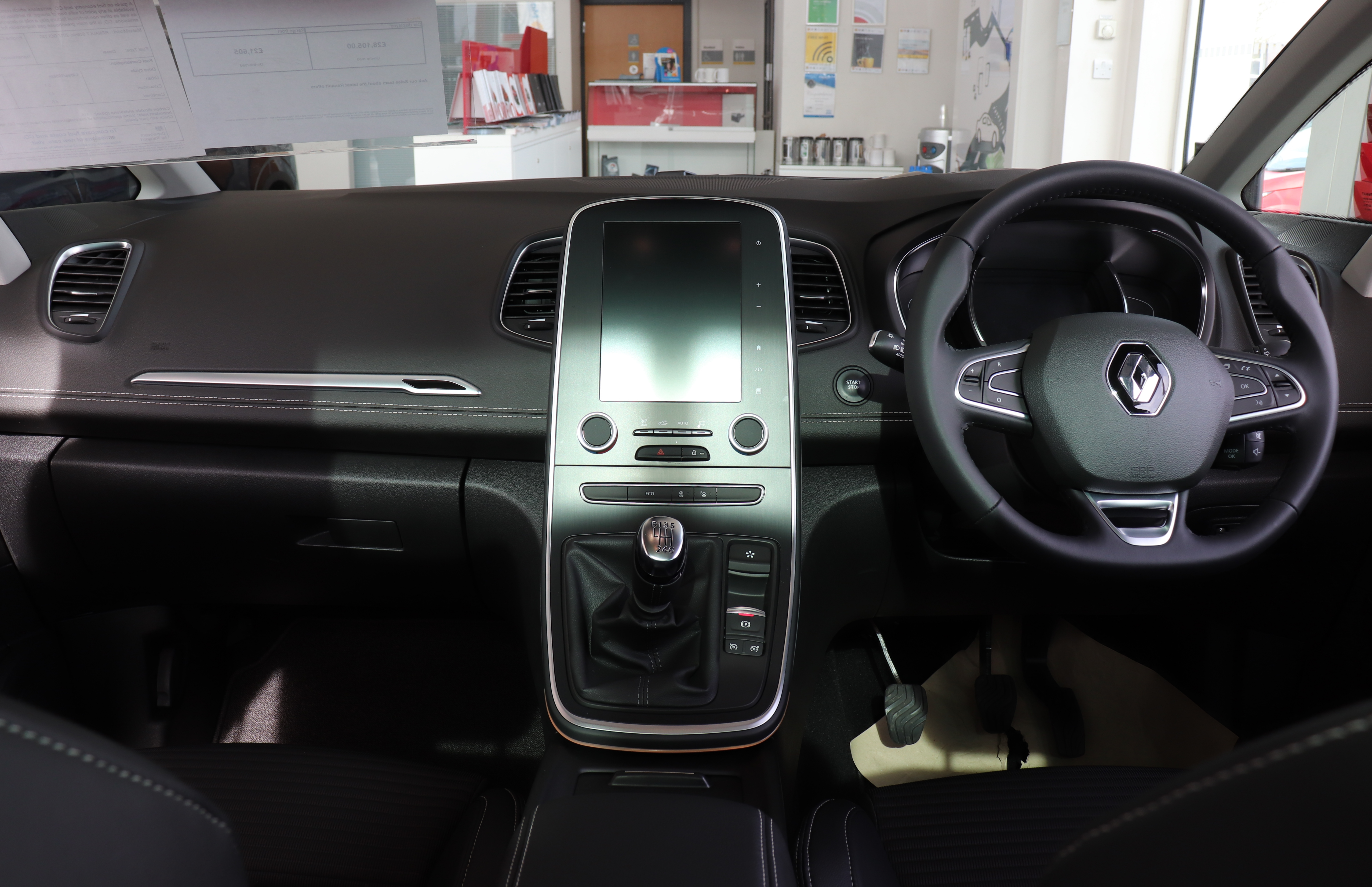 2017 Renault Scenic Interior Taken in Leamington Spa